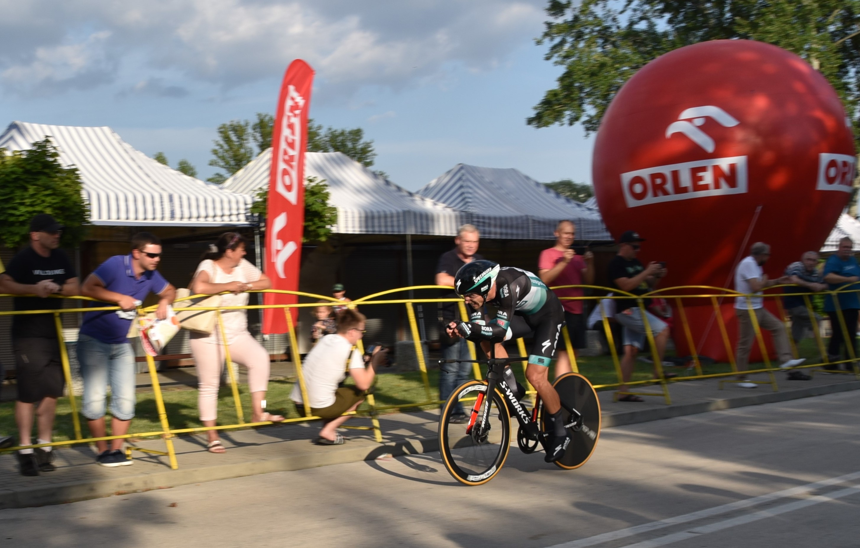 Maciej Bodnar - Polish road cyclist, Champion and Polish representative, Olympian, European runner-up. Polish Championship 2020 - runner-up, Busko-Zdrój, 20/08/2020